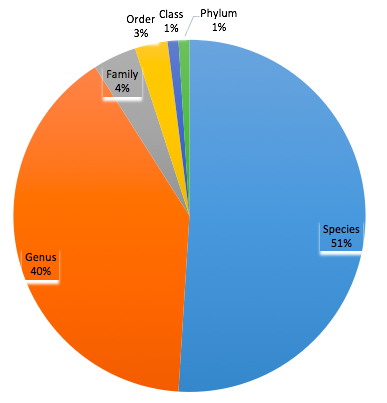 add figure to virome that explain the proportion of viral groups